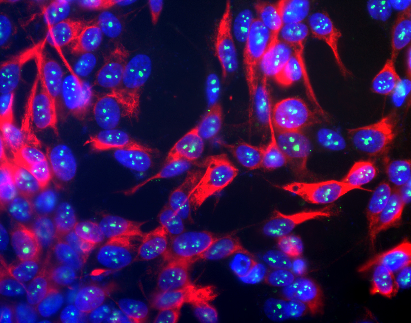 Human SH-SY5Y cells stained with antibody to fibrillarin in green, neurofilament NF-H in red and DNA in dark blue, The fibrillarin antibody binds to spots in the nucleus corresponding to nucleoli. The nucleoli also contain DNA and so appear as pale blue dots. The neurofilament NF-H antibody binds to cytoplasmic intermediate or 10nm filaments. Image and antibodies by EnCor Biotechnology Inc.